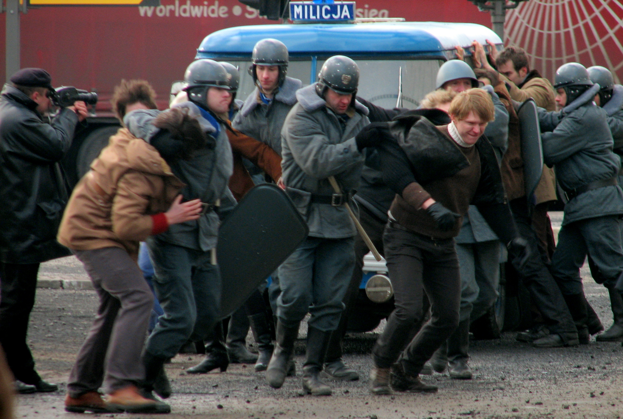 Filming of "Black Thursday" at intersection of ulica Świętojańska and Aleja Józefa Piłsudskiego in Gdynia. People on this picture are actors, extras, and film crew. "Black Thursday" is a film about Polish 1970 protests.